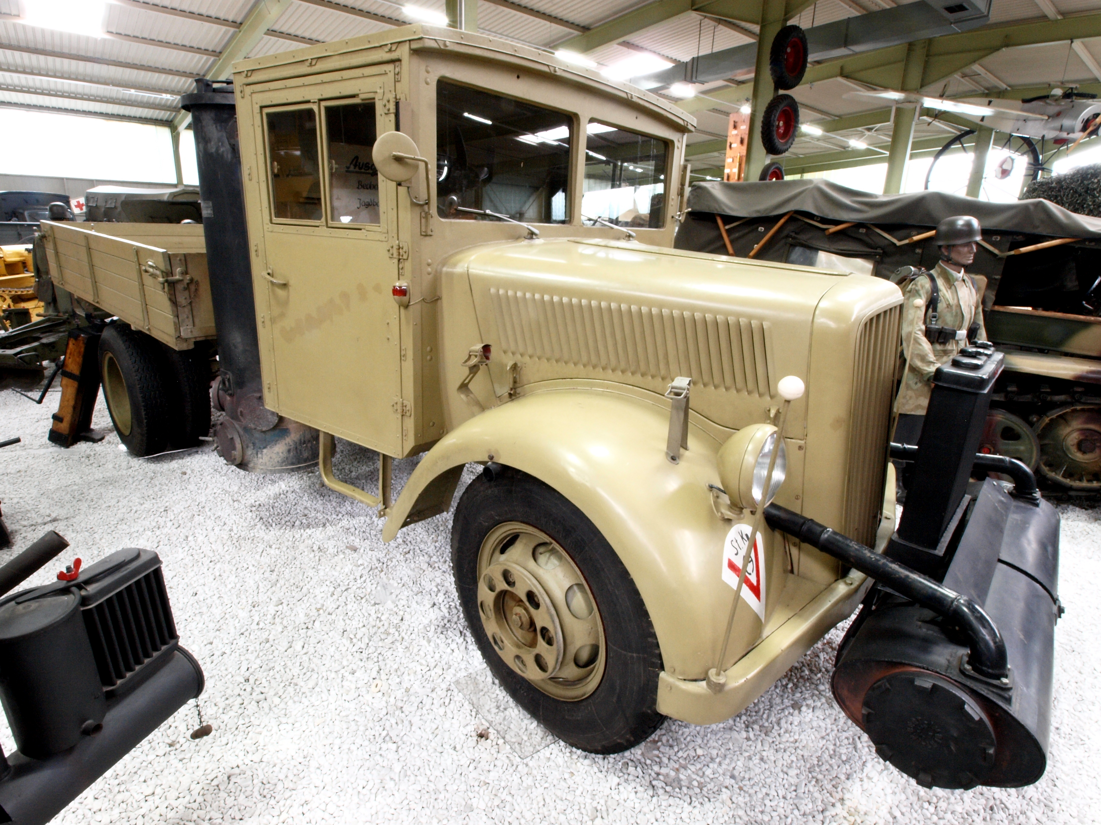 A Mercedes-Benz L701 license copy of Opel Blitz truck with wood gas generator